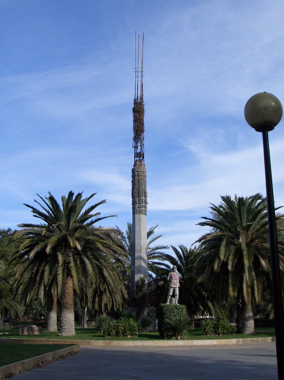 Monument of Tío Jorge, Parque del Tío Jorge, Zaragoza. Created by Angel Orensanz, installed in June 22, 1968. Height of the monument: 17 m (18.5 yd)[1] Photographed circa 2005.